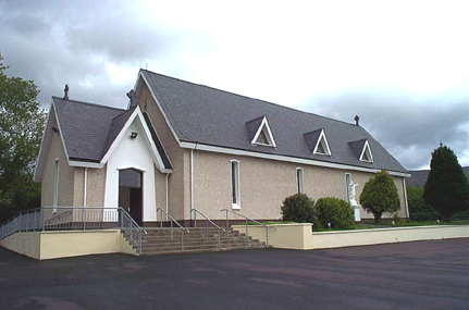 Cornamona, Co. Galway, Roman Catholic Church.